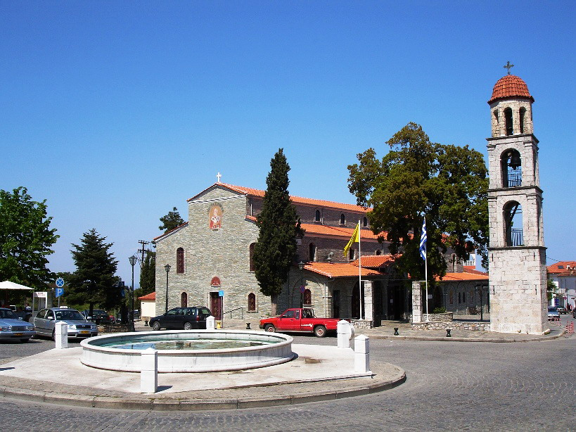 The Church of Agios Nikolaos in Litochoro, northern Greece.